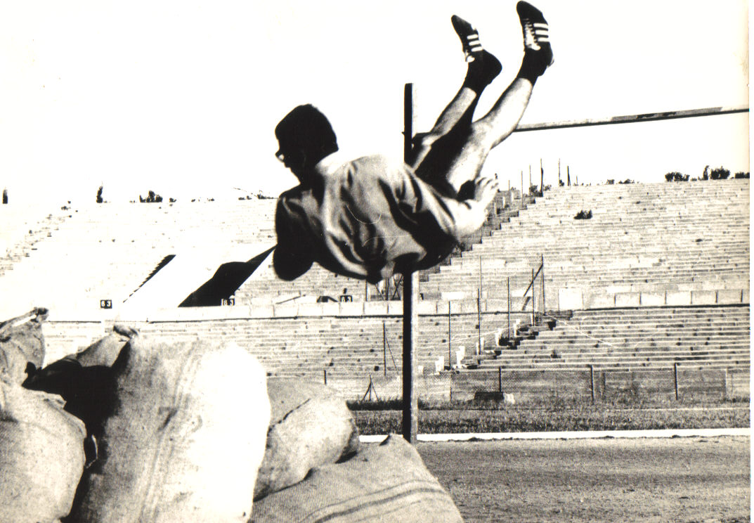 Yosef pickel high jump 2